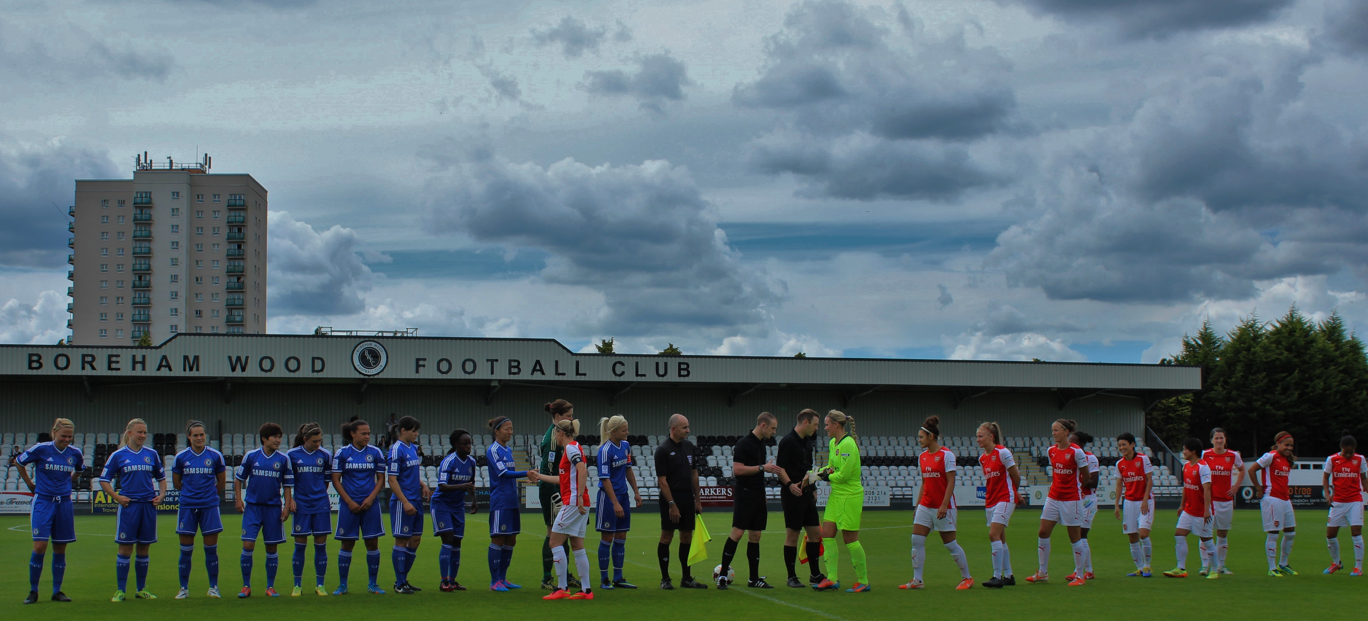 Arsenal Ladies and Chelsea Ladies line up before the Continental Cup game Chelsea L.F.C. players (blue, from left to right): Gilly Flaherty, Laura Bassett, Claire Rafferty, Ji So-yun, Hannah Blundell, Drew Spence, Rachel Williams, Eniola Aluko, Yūki Ōgimi, Marie Hourihan (hidden), Katie Chapman Chelsea L.F.C. players (red, f.l.t.r.): Kelly Smith, Emma Byrne, Jade Bailey, Leah Williamson, Casey Stoney, Danielle Carter (hidden), Yukari Kinga, Shinobu Ohno, Niamh Fahey, Alex Scott, Rachel Yankey Referee: Daniel Cook